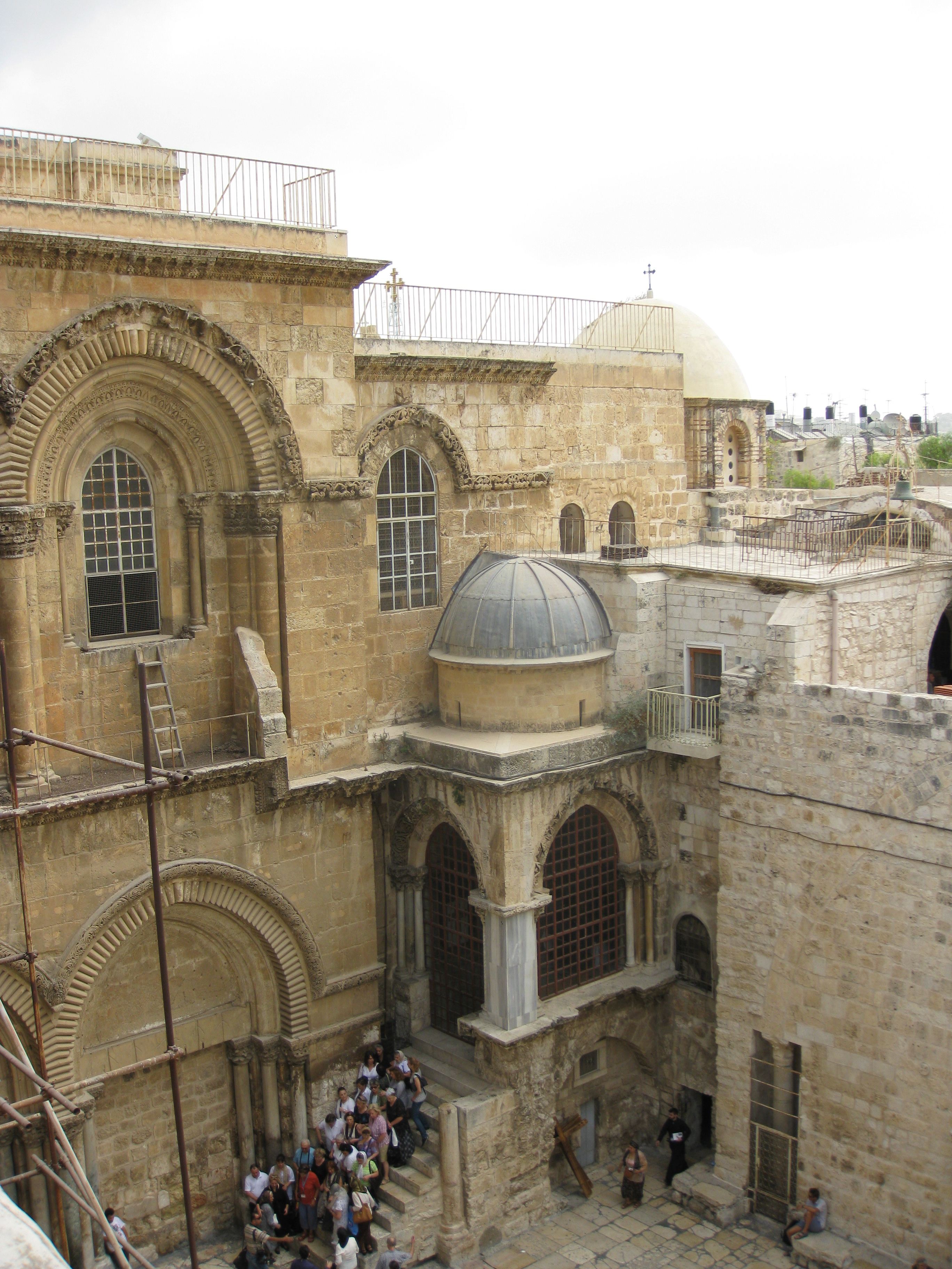 Facade and Parvis of the Holy Sepulchre